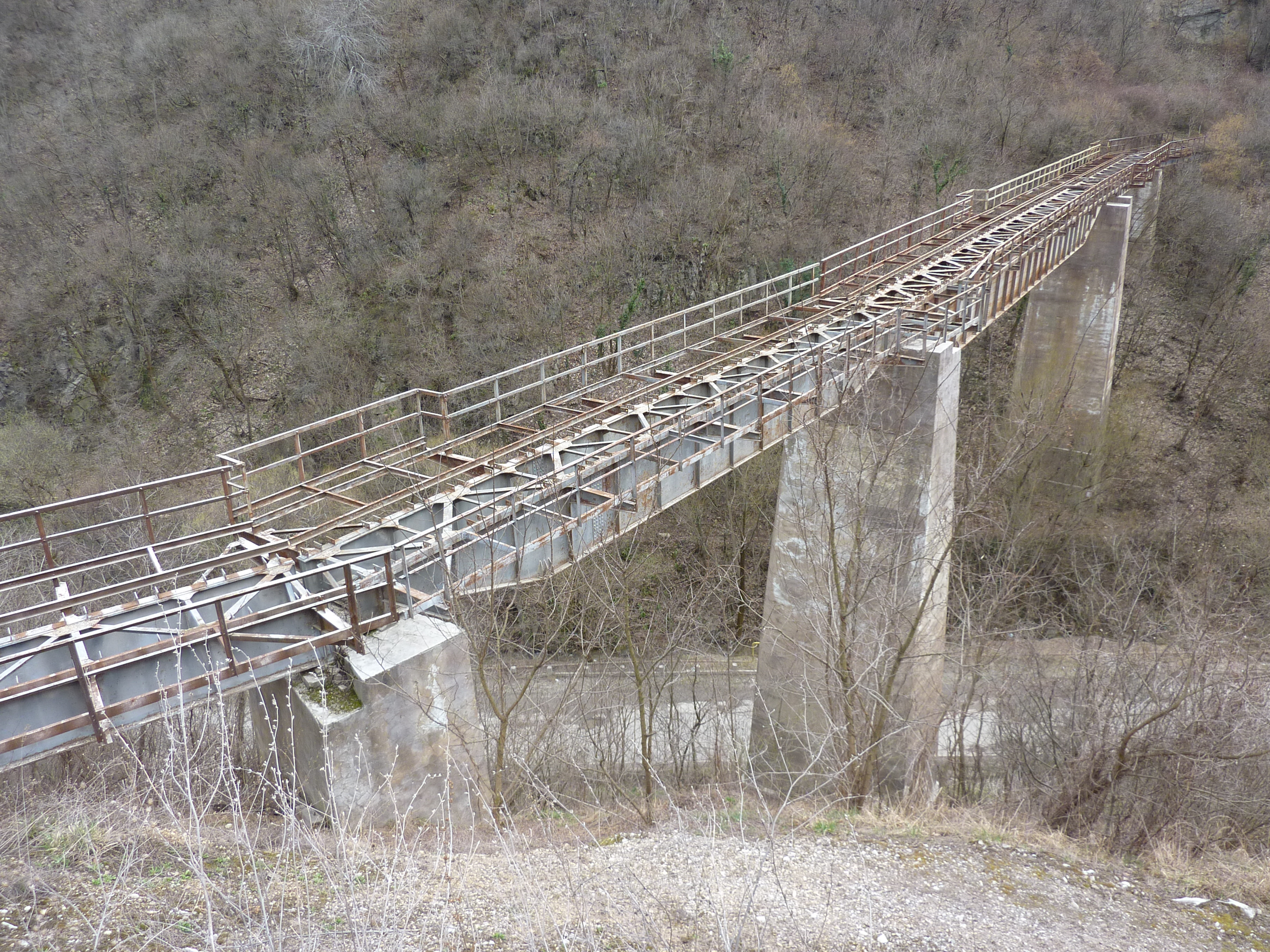 The remaining viaduct, above the Zlaşti valley between Hunedoara and Zlaşti.